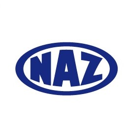 NAZ Logo